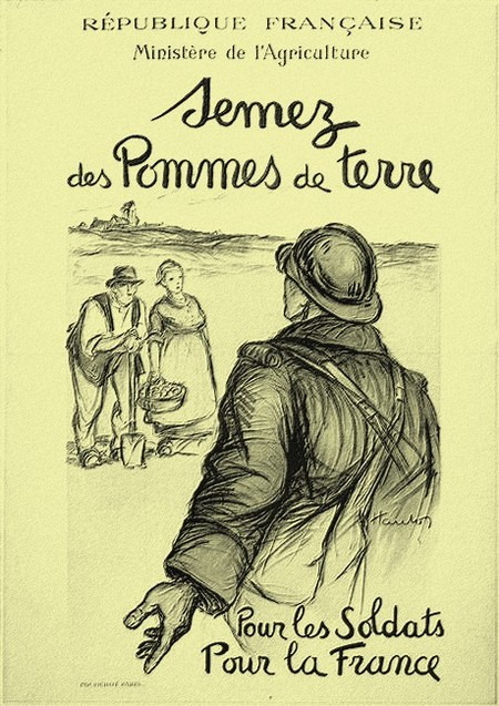 Affiche ministère agriculture guerre 14